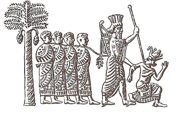 Cambyses II of Persia capturing pharaoh Psamtik III. Image on Persian seal, VI century BC.